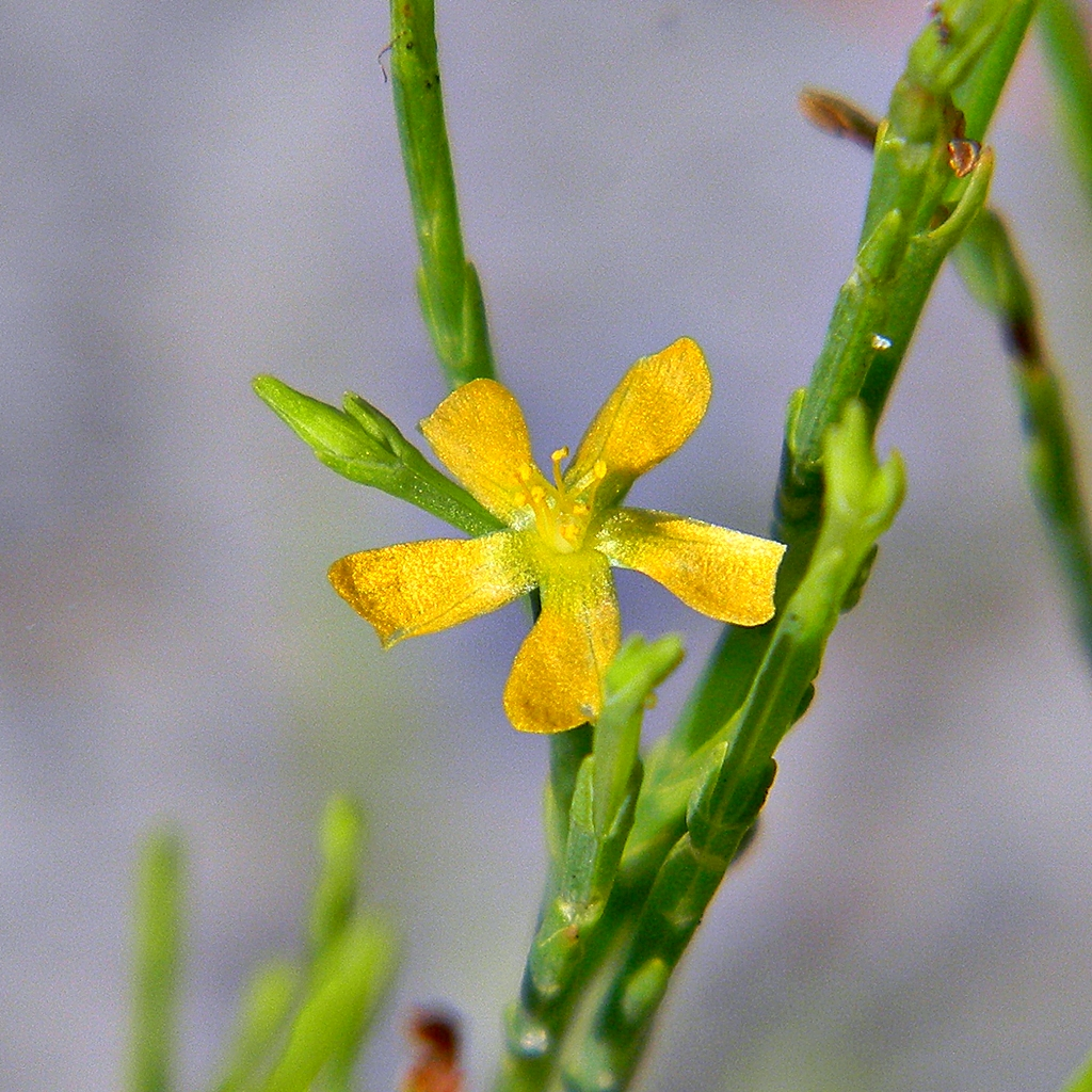 Hypericum gentianoides, a delicate little plant with tiny 4mm bright yellow flowers and bright red fruits. These are thriving and blooming along the trail through the lower, moister sections of Juno Dunes Natural Area, Palm Beach County, Florida. The leaves are barely noticeable & scale-like. It's a really cool little St. John's Wort!